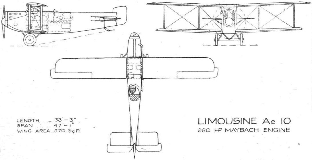 Three-view drawing of Aero A.10 limousine.